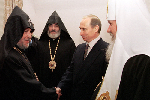 THE KREMLIN, MOSCOW. Acting President Vladimir Putin with Alexii II, the Patriarch of Moscow and All Russia, and Karekin II, the Catholicos of All Armenians.